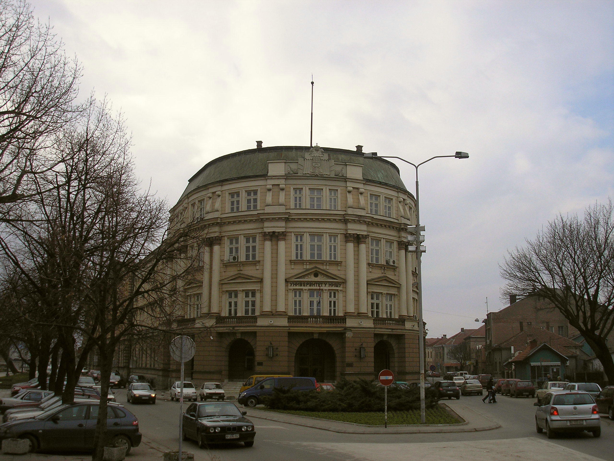 Front view of the building of the University of the city of Niš.